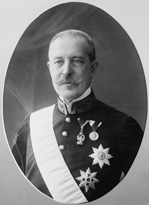 Austrian diplomat Alois Lexa von Ährenthal (1854-1912)